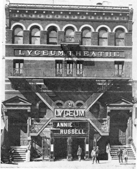 The Lyceum Theatre operated on Manhattan’s Fourth Avenue (now Park Ave. South) between 23rd and 24th Streets, from 1885 to 1902, when it was torn down to make way for the Metropolitan Life Insurance Company Tower and replaced by the Lyceum Theatre on 45th Street. For most of its existence, the theatre was home to Daniel Frohman’s Lyceum Theatre Stock Company, which presented many important plays and actors of the day.